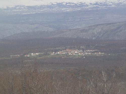 sefdsf